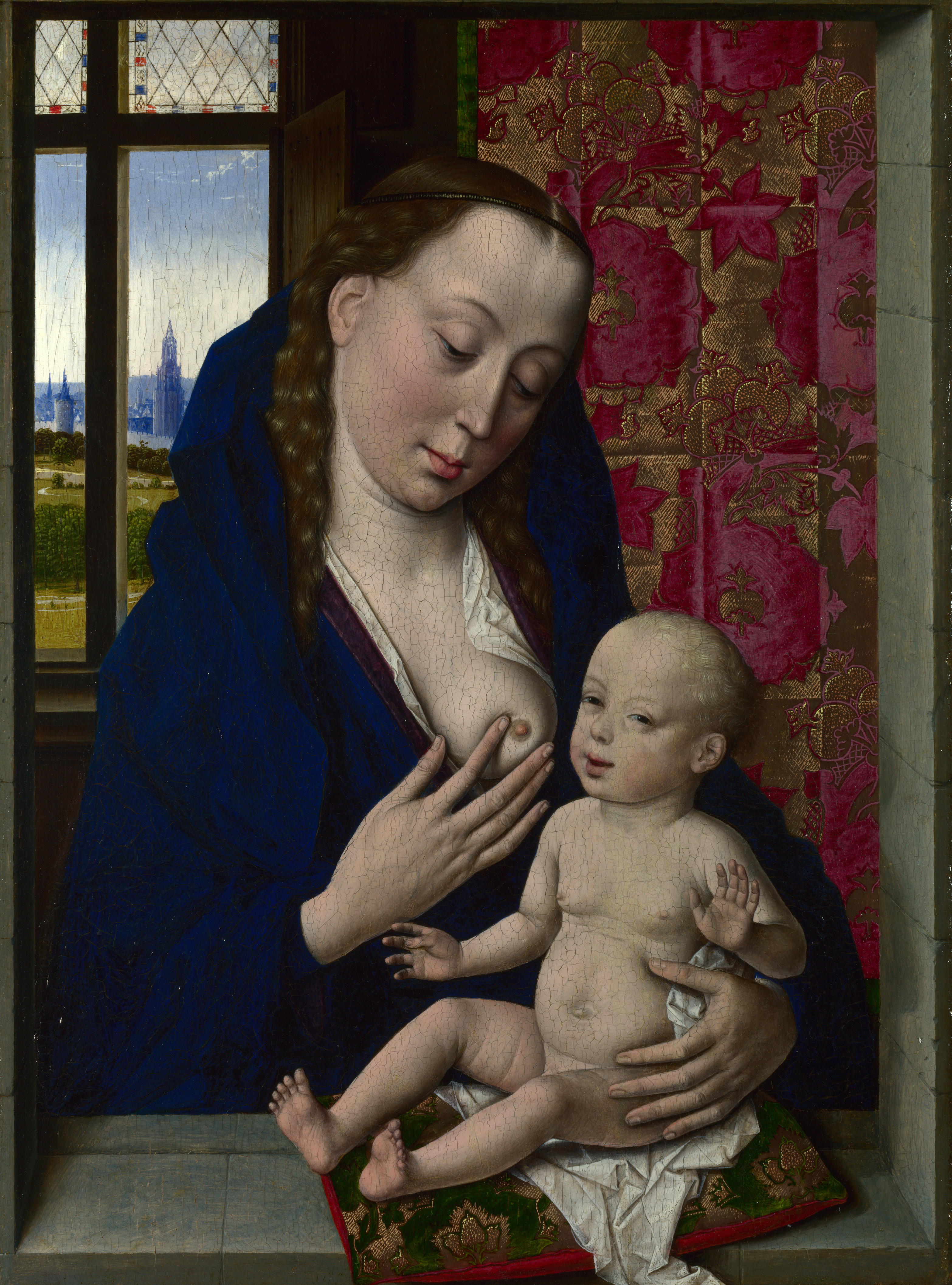 Key facts